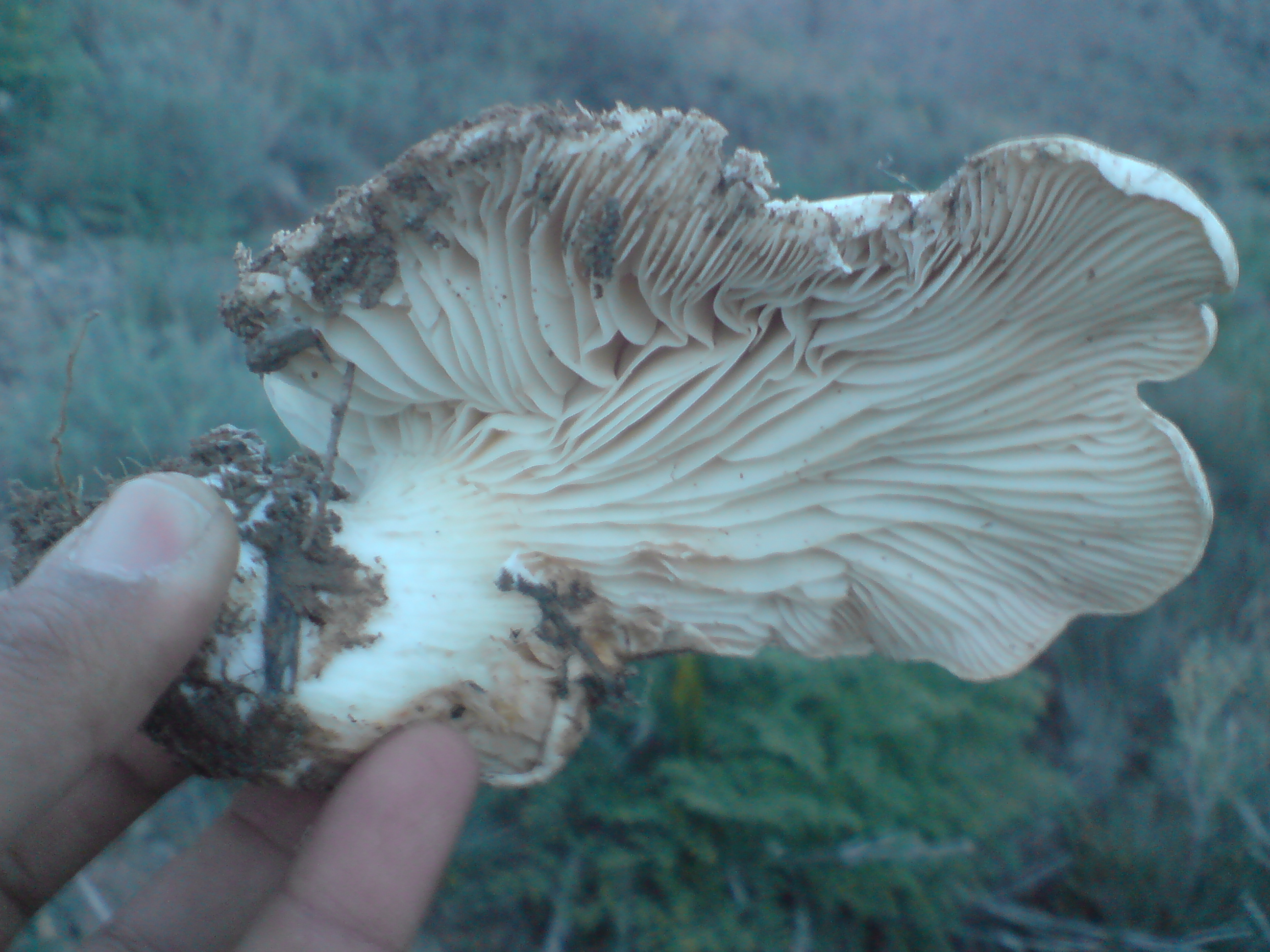 Chiltan Mashroom